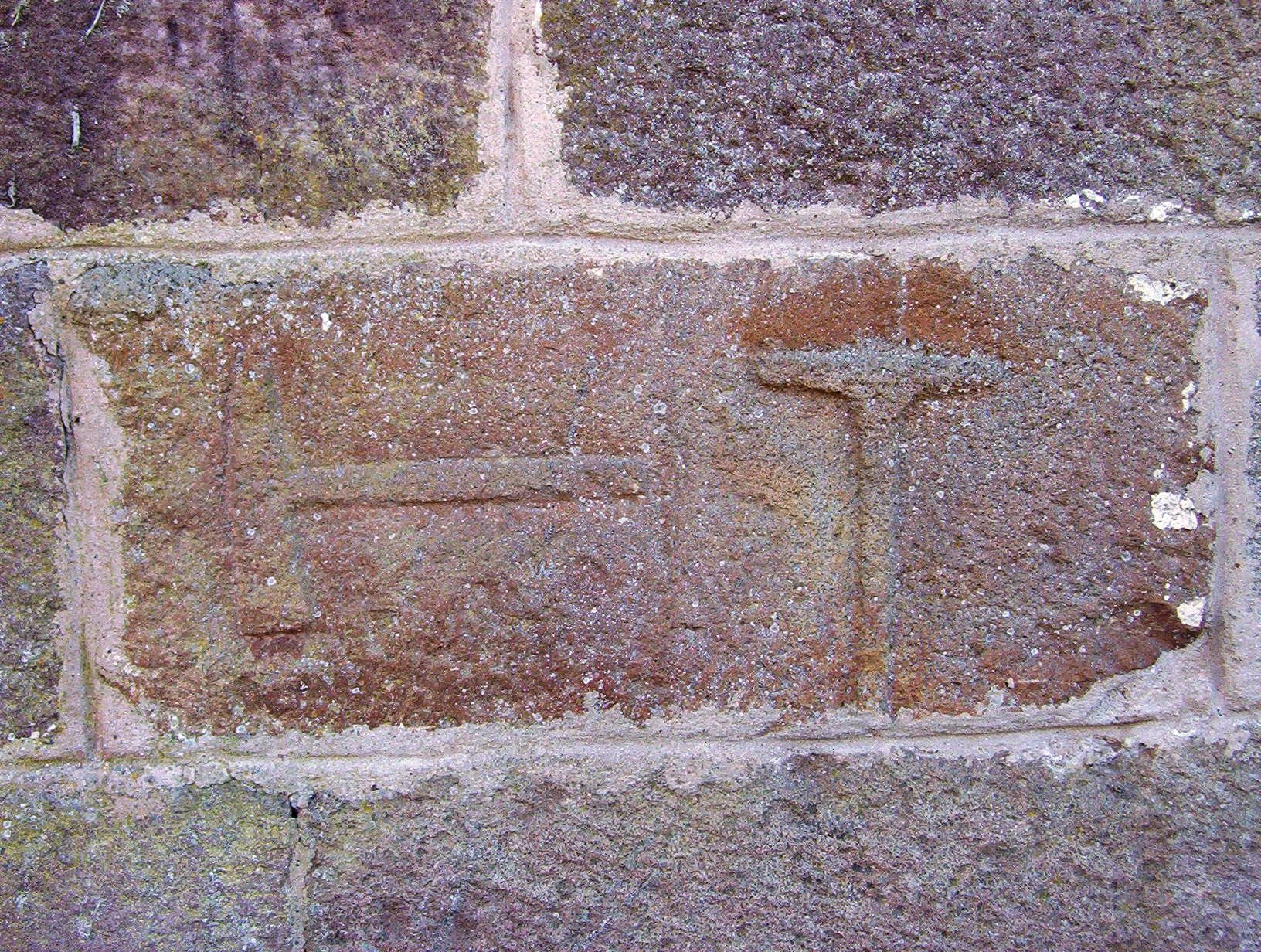 Detail of a mark of stonecutter in the church of Our Mrs. of Somaconcha (Cantabria, Spain)